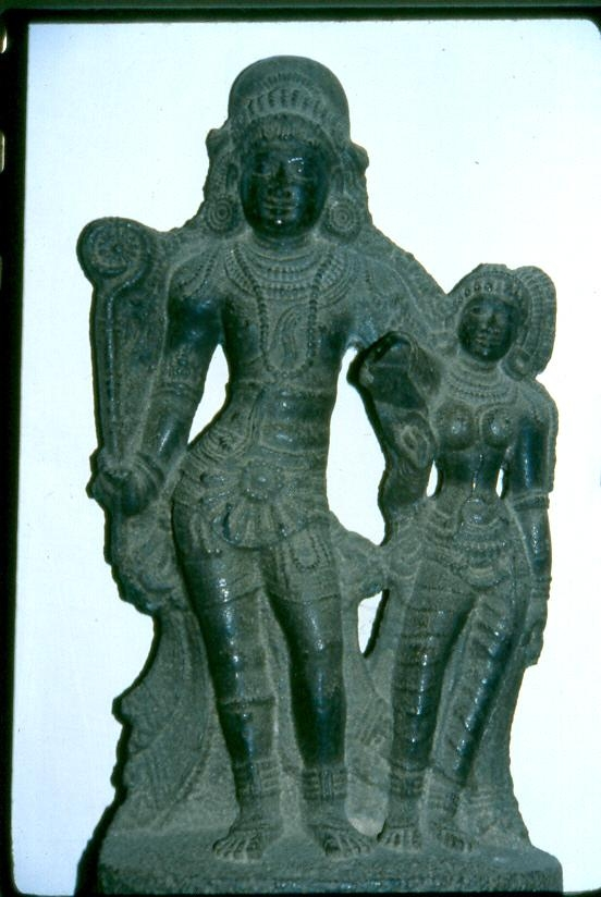 Krishna and Rukmini, Government Museum Madras, India